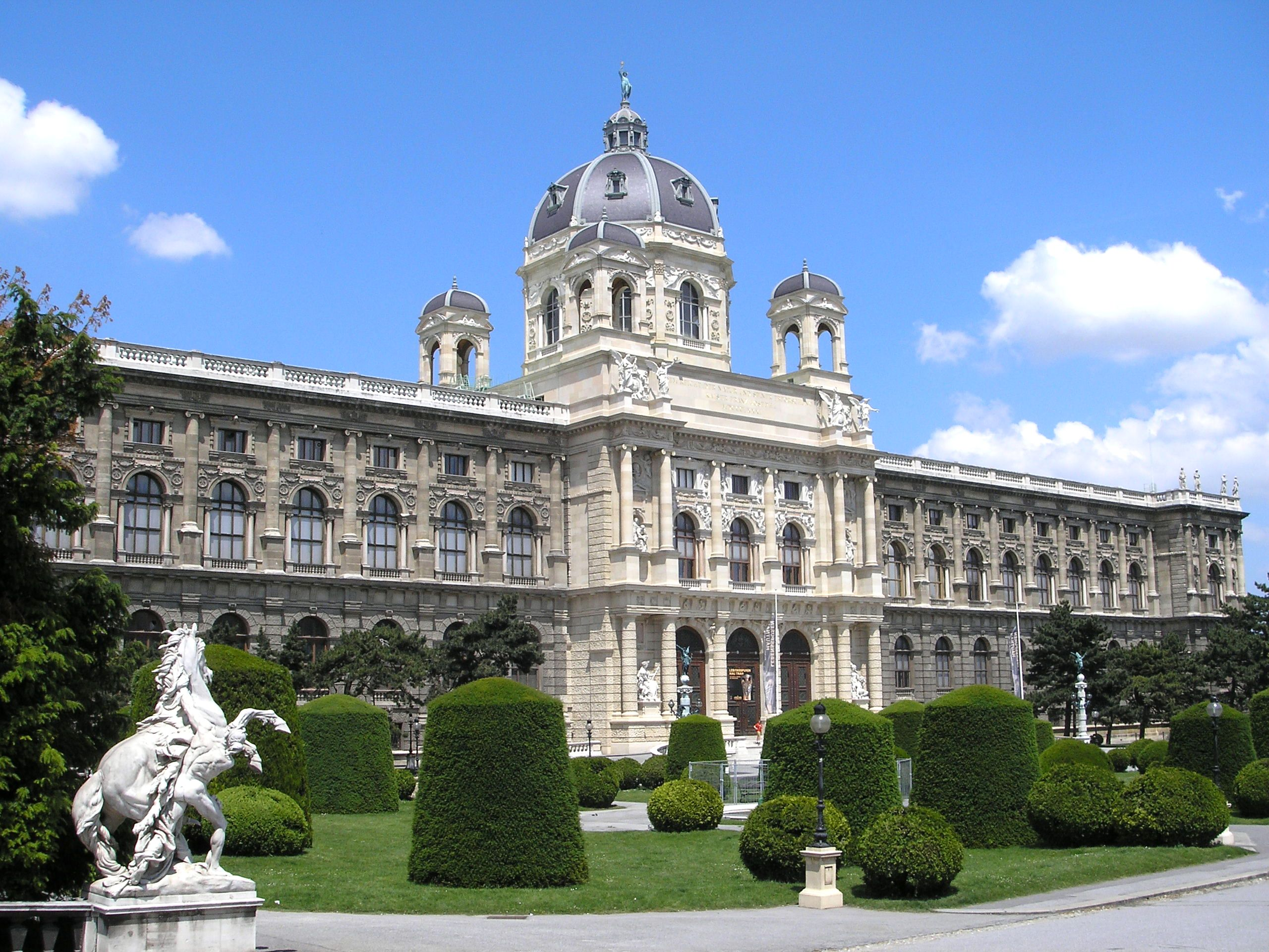 Austria, Vienna, Naturhistorisches Museum